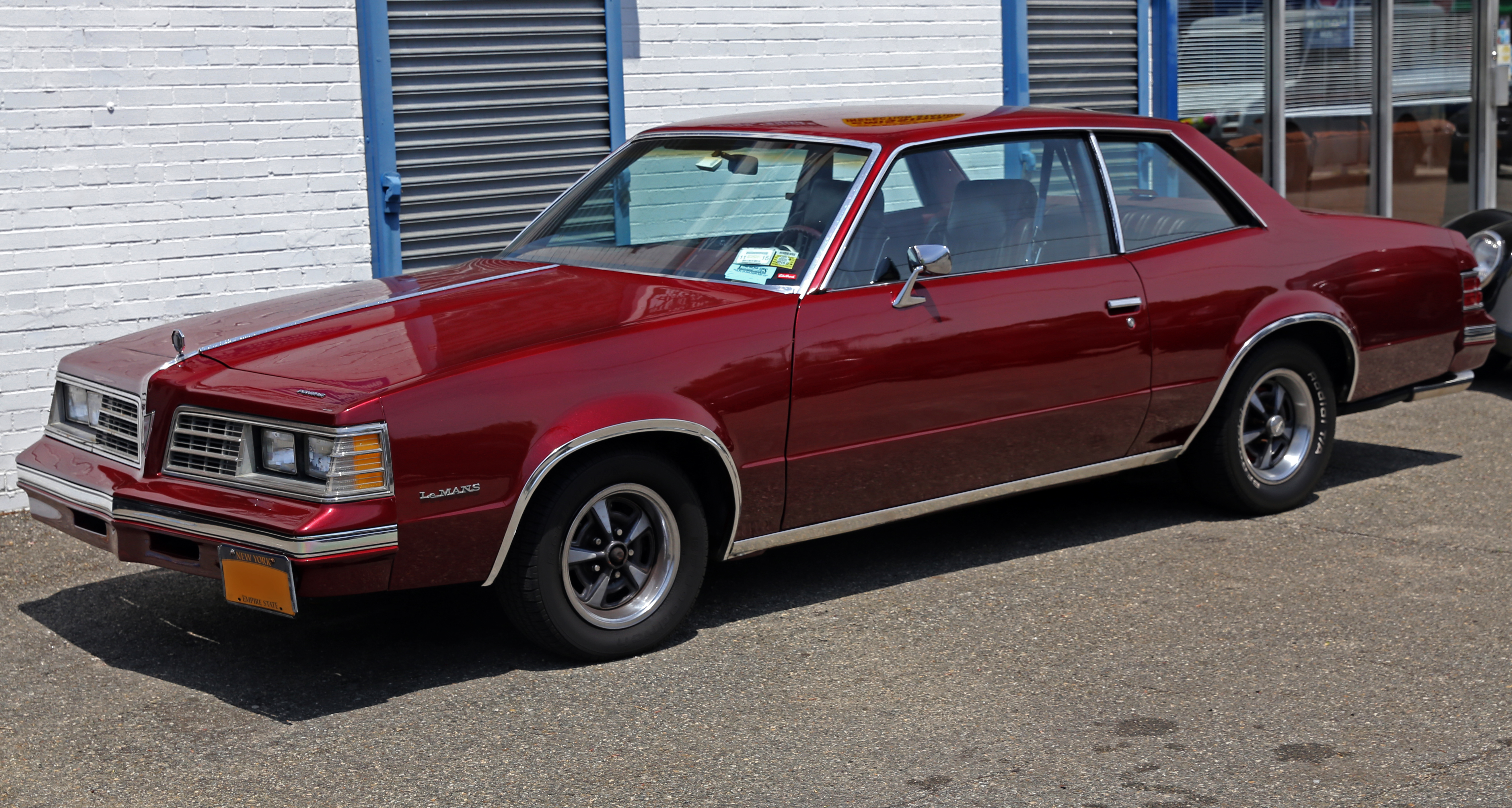 A 1981 Pontiac Le Mans two-door notchback coupé. Built in Oshawa, Ontario (Canada) with a 3.8 liter, two-barrel Buick V6 engine.